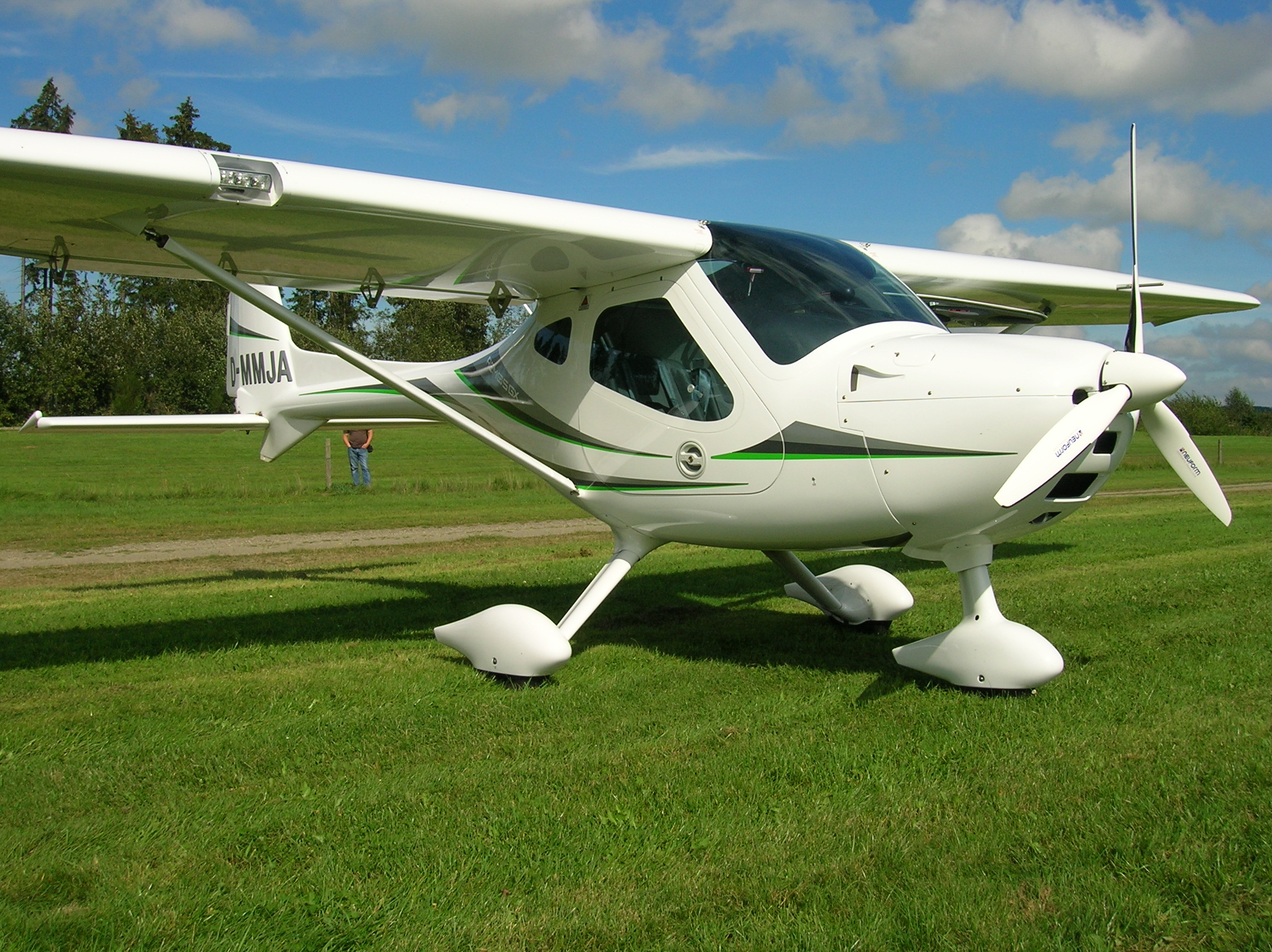 A Remos GX during the „Bergfliegen 2011“ at Schmallenberg airfield